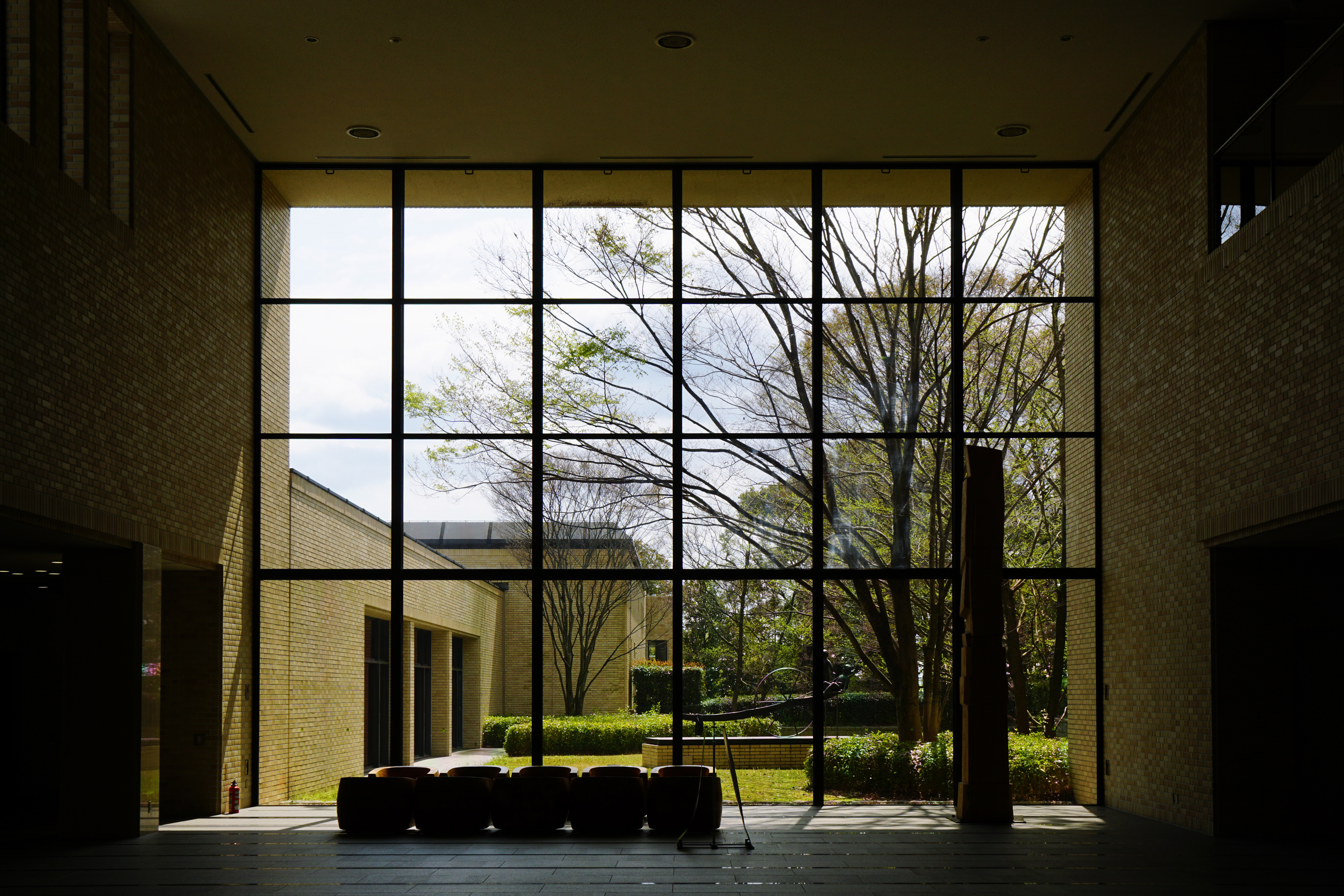 Mie Prefectural Art Museum in Tsu, Mie prefecture, Japan.